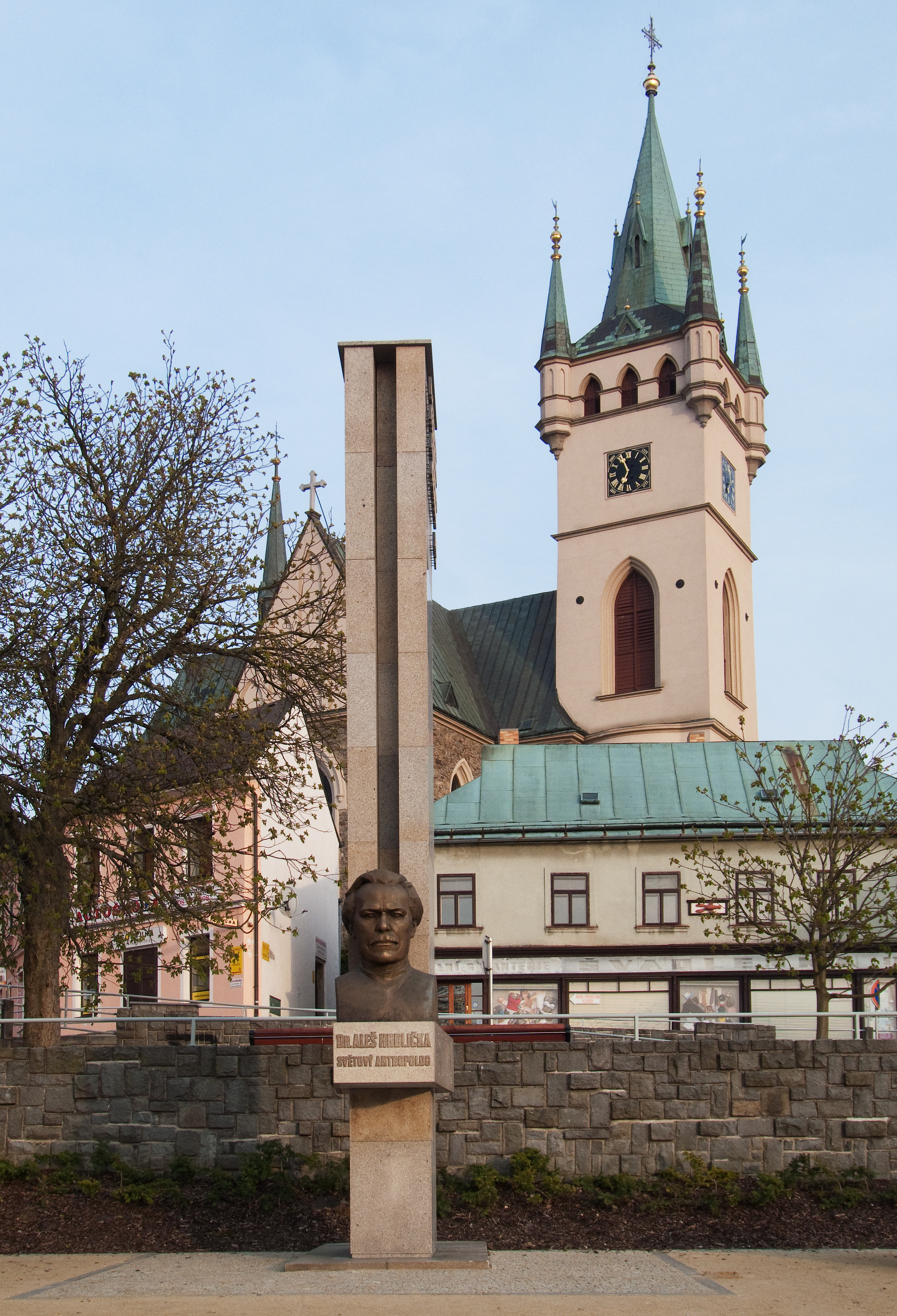 St. Nicolas Church and the memorial to Dr. Aleš Hrdlička in Humpolec, Pelhřimov District, Czech Republic